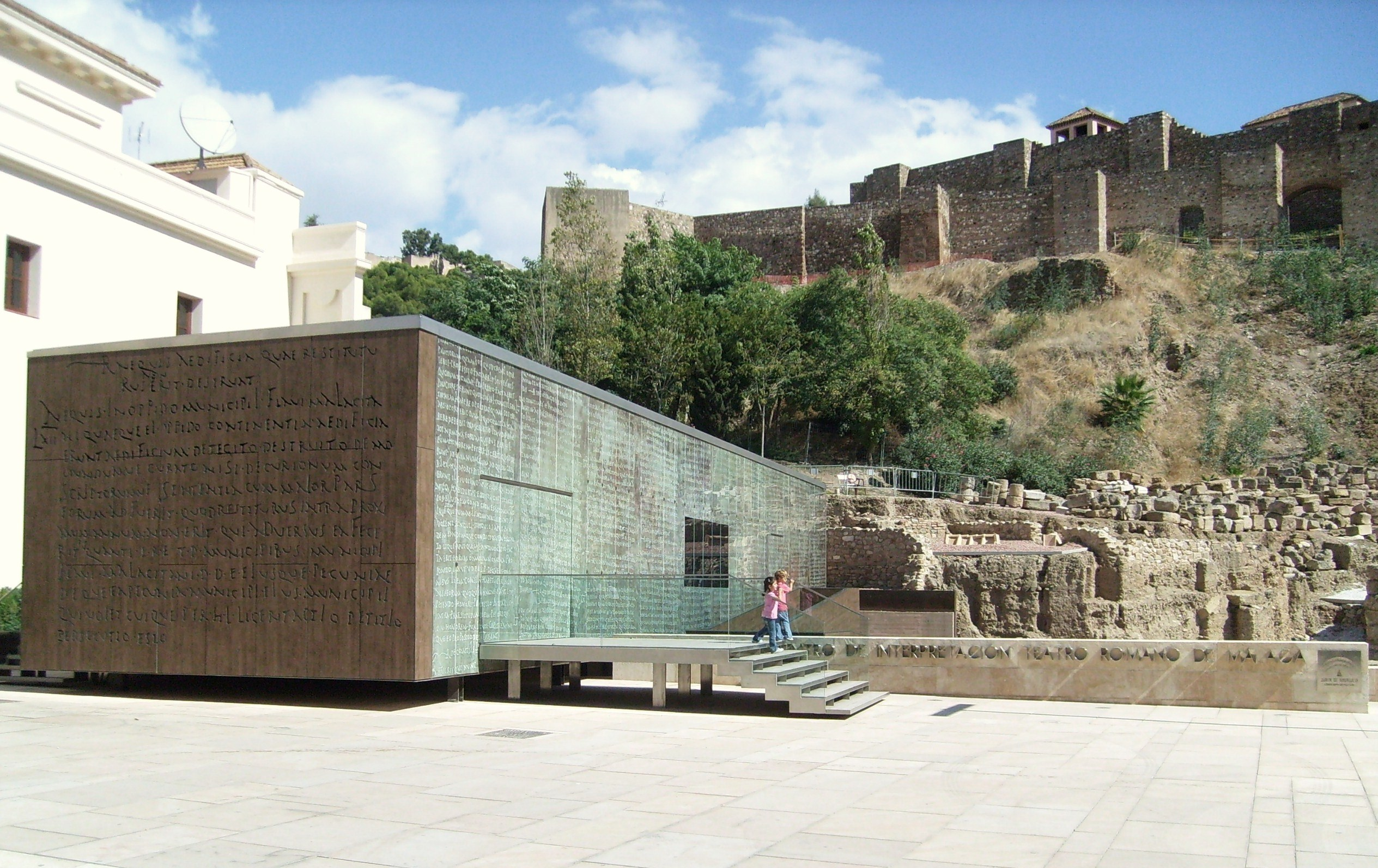 Museum of the Roman Theater of Málaga